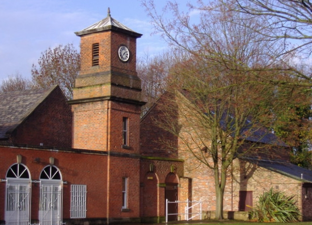 Stable Clock, Worden Park